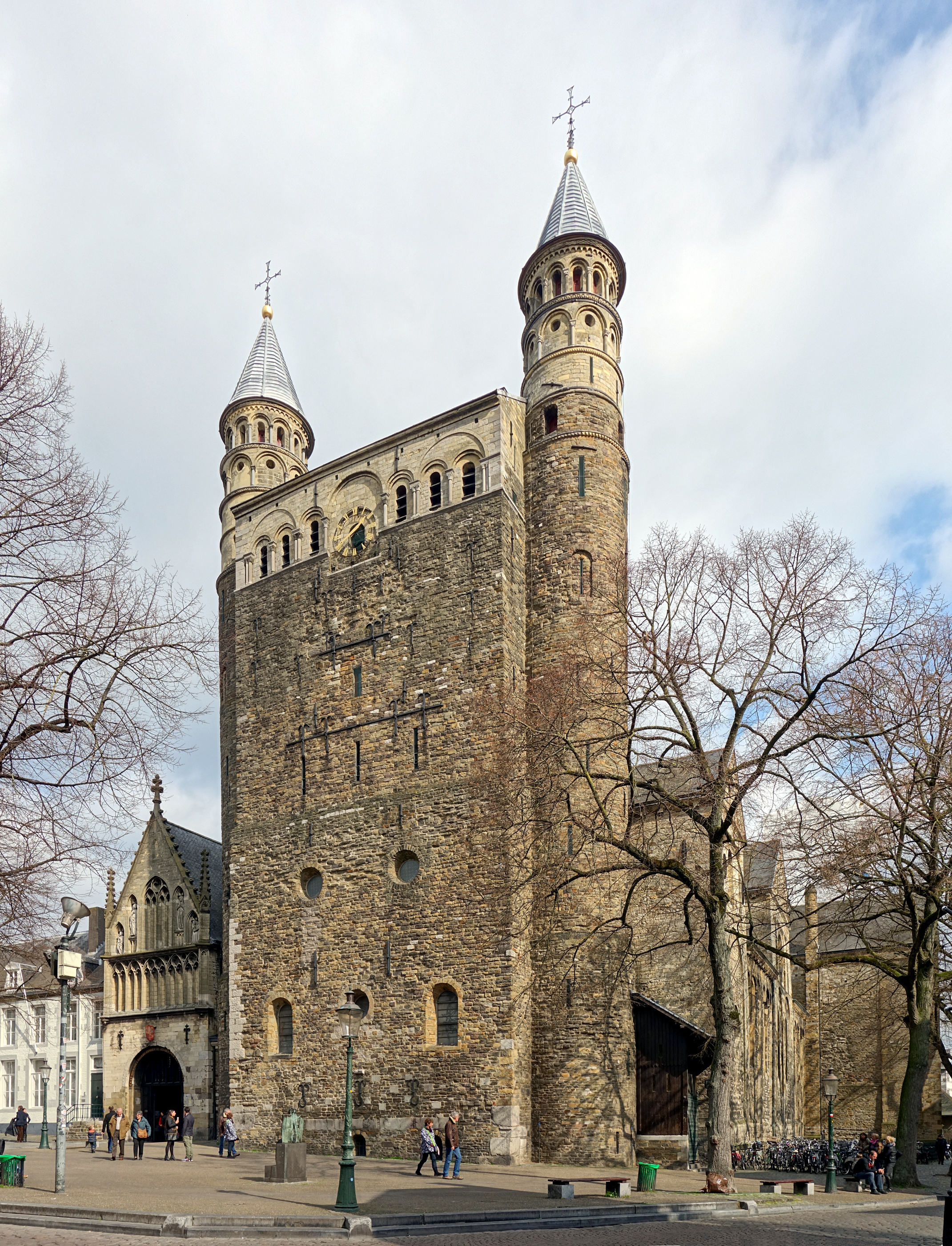 Westwork of Basilica of Our Lady, Maastricht, Netherlands.